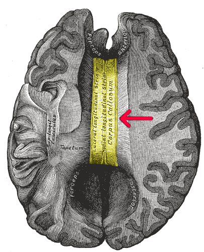 corpus callosum. Image is modified from a scan of a plate in Gray's Anatomy